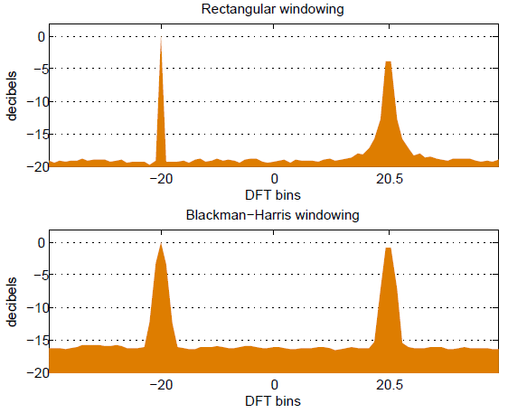 Comparison of two window functions in terms of their effects on equal-strength sinusoids with additive noise. The noise "floor" is smoothed by averaging many DFTs to reveal the substantial difference in levels, caused by the different window functions. The sinusoid at bin -20 suffers no scalloping and the one at bin +20.5 exhibits worst-case scalloping. The rectangular window produces the most scalloping but also narrower peaks and lower noise-floor. A third sinusoid with amplitude -16 dB would be noticeable in the upper spectrum, but not in the lower spectrum.